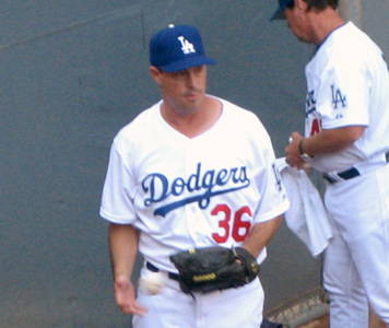 Greg Maddux warming up in the Dodgers' bullpen before his start on Aug. 13, 2006. Photograph by myself, cropped for the article VermillionBird 05:16, 16 August 2006 (UTC) 05:16, 16 August 2006 . . VermillionBird . . 356×300 (42 KB)